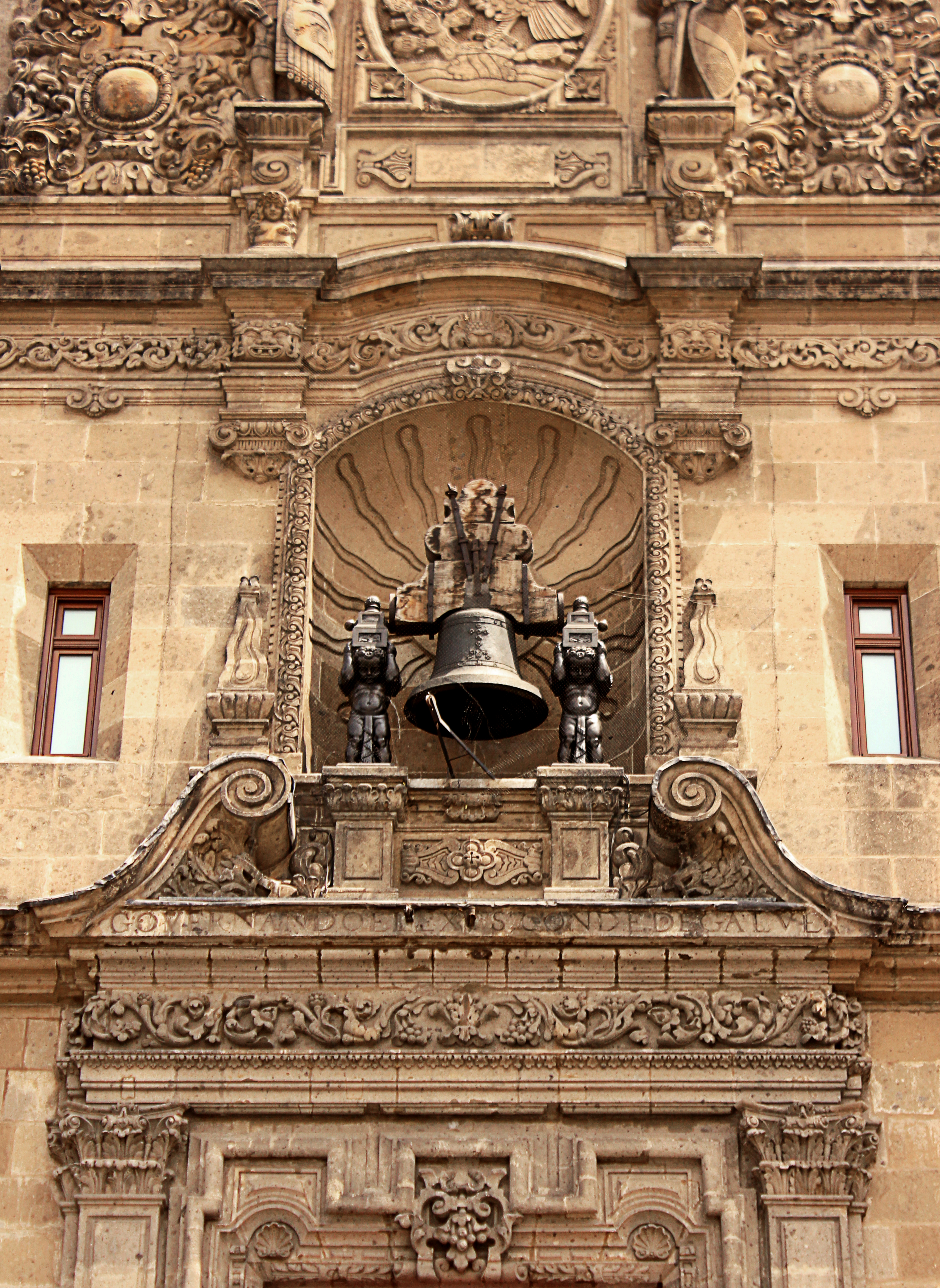 Baroque facade and carved stone reliefs of the National Palace of Mexico City. Facing the Zocolo, in the historic center of Mexico City.